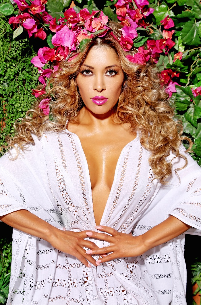 Olga Loera in a spring fashion photo shoot wearing a crown of flowers